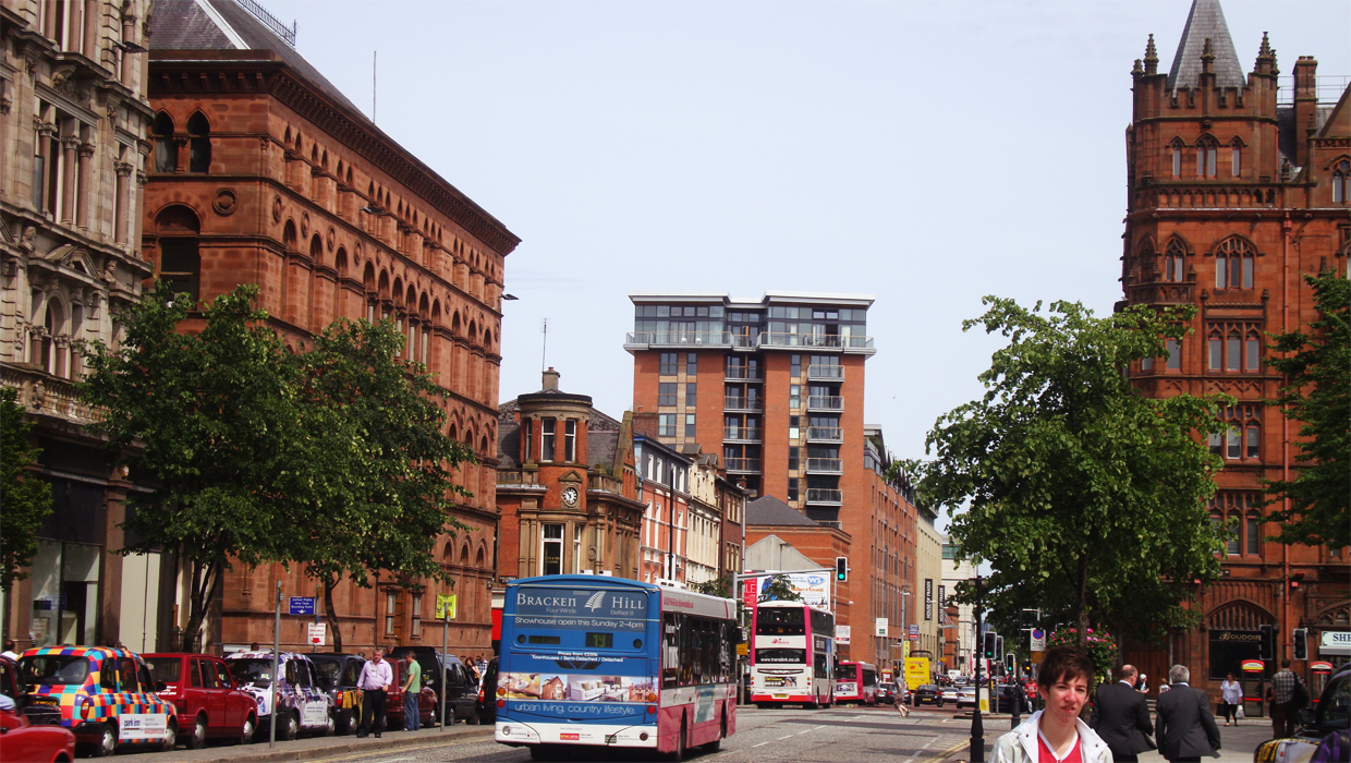 Belfast